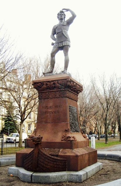 Anne Whitney, Leif Erikson, 1887, Commonwealth Avenue, Boston, Massachusetts.